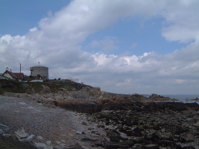 The James Joyce Martello tower at Sandycove, County Dublin, Ireland